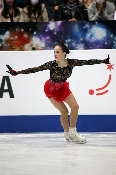 Alina Zagitova at the World Championships 2019 - Free program